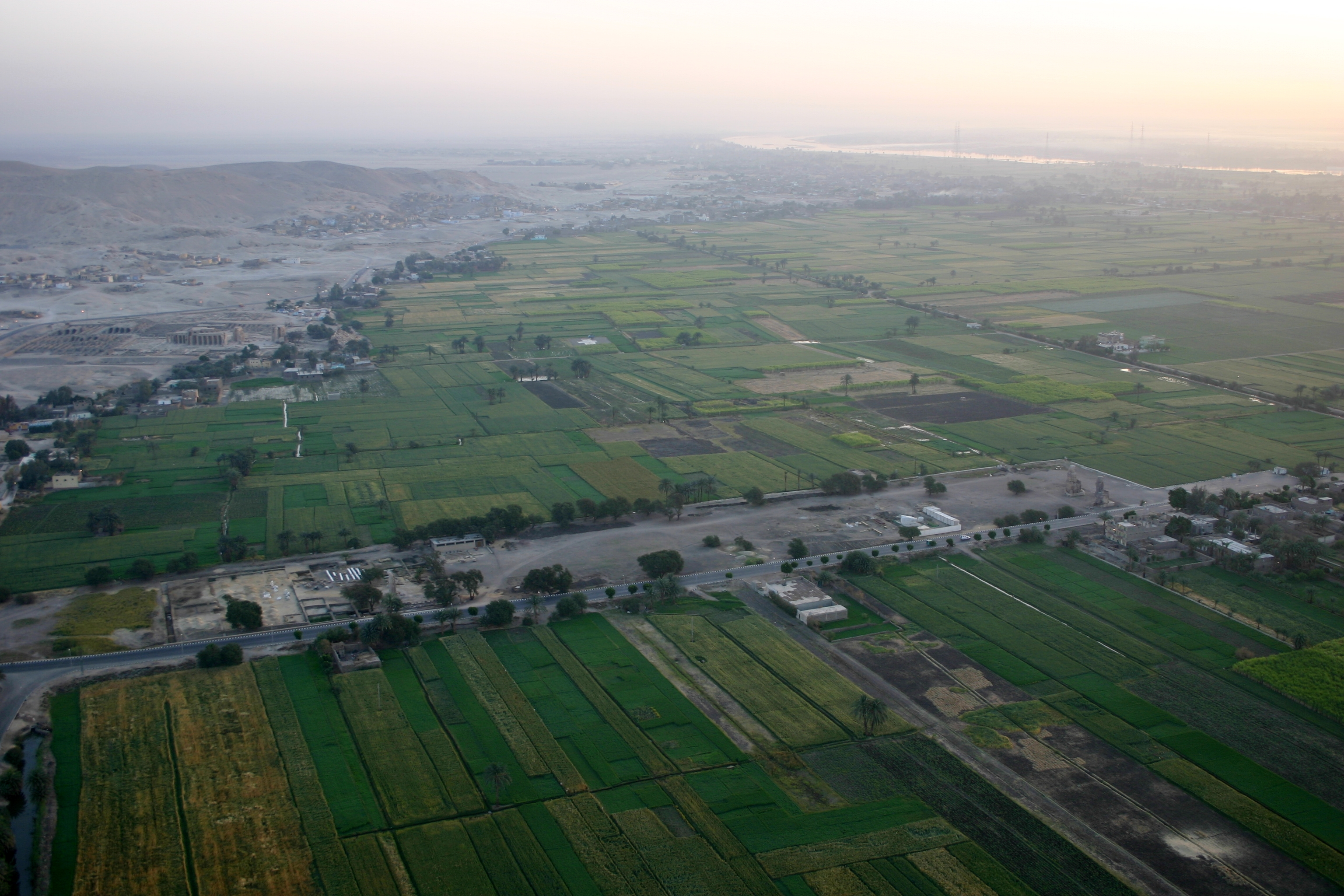 Amenhotep III Mortuary Temple from the air